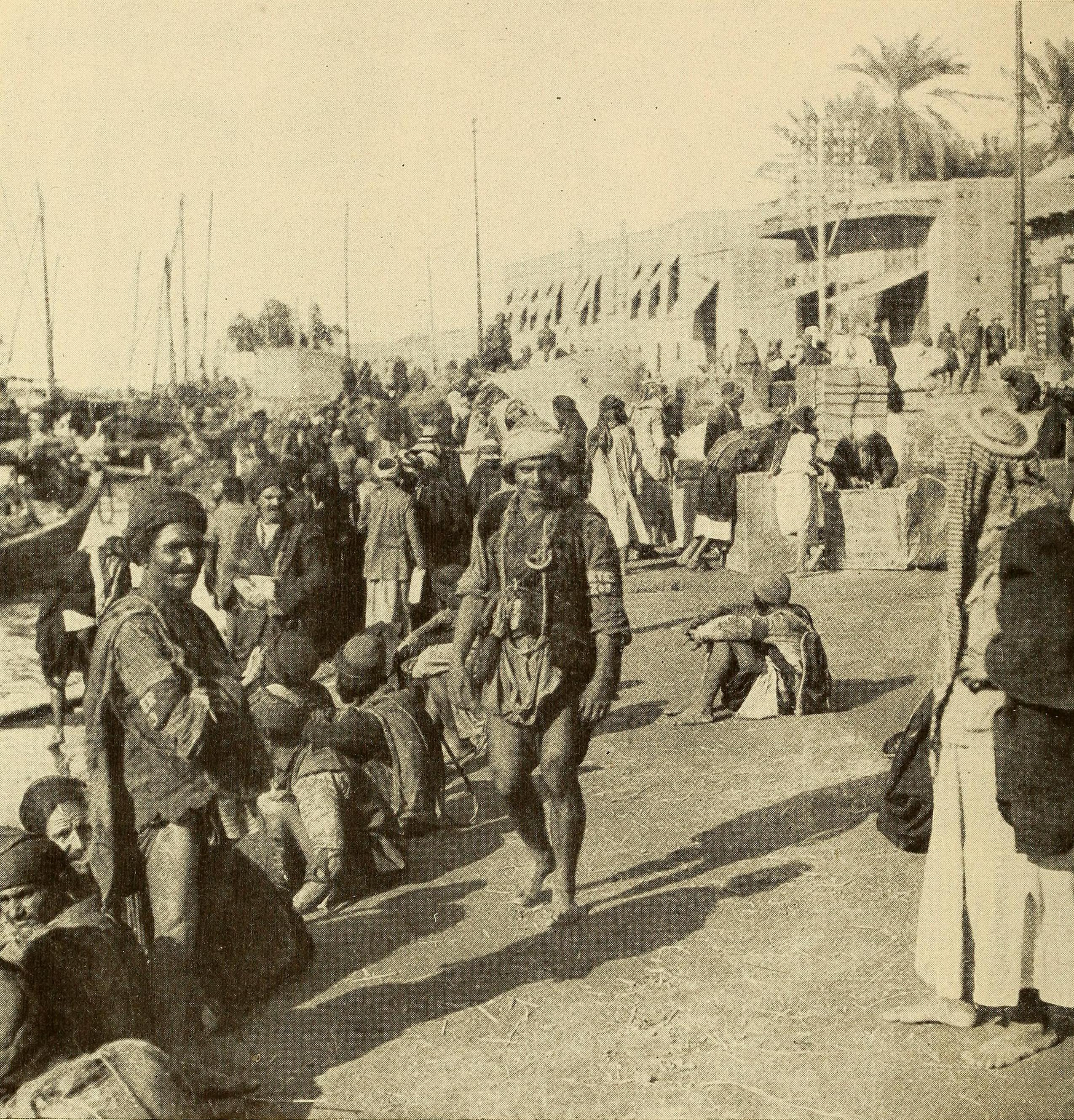 The National geographic magazine.